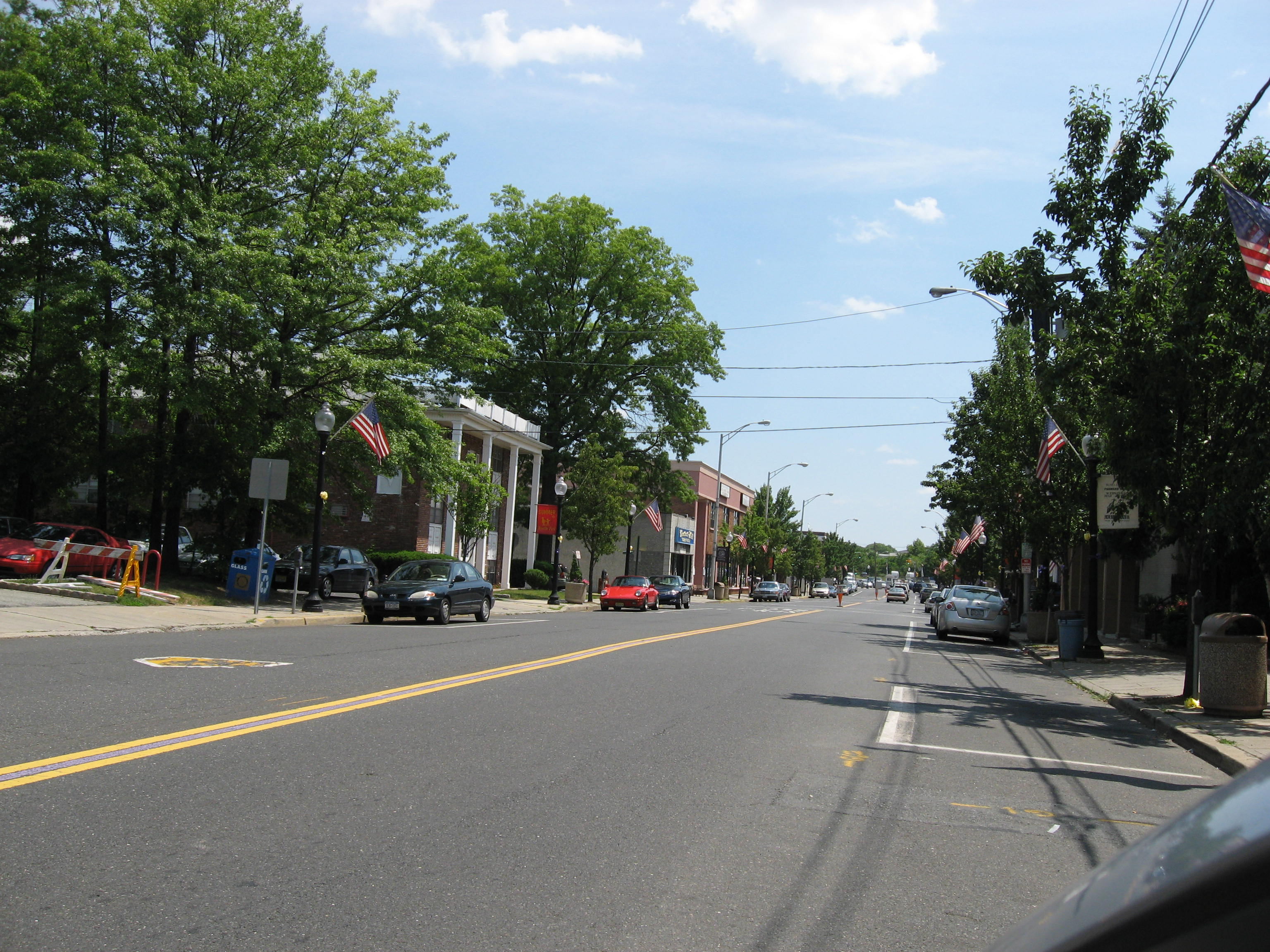 Roselle Park Chestnut Street (Main Street of Borough)